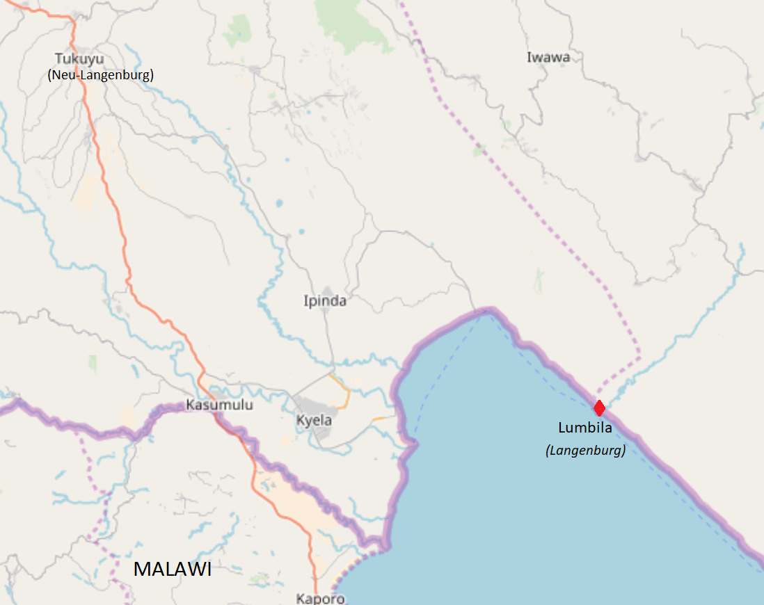 Location of Lumbila (formerly colonial Langenburg) at Lake Nyassa / Lake Malawi in Tanzania